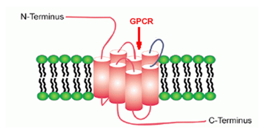 [그림1] GPCR의 구조